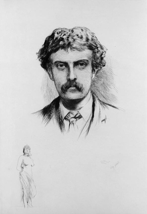 Cecil Lawson (1849–1882 ; British landscape painter), head-and-shoulders portrait, facing front. Illus. in: Cecil Lawson: a memoir / by Edmund W. Gosse ; with illustrations by Hubert Herkomer, A.R.A., J.A. McN. Whistler, and Cecil Lawson. London : The Fine Art Society, 1883, frontispiece. The original drypoint engraving was published in a portfolio entitled "Tribute to Robert Lawson" in 1883.